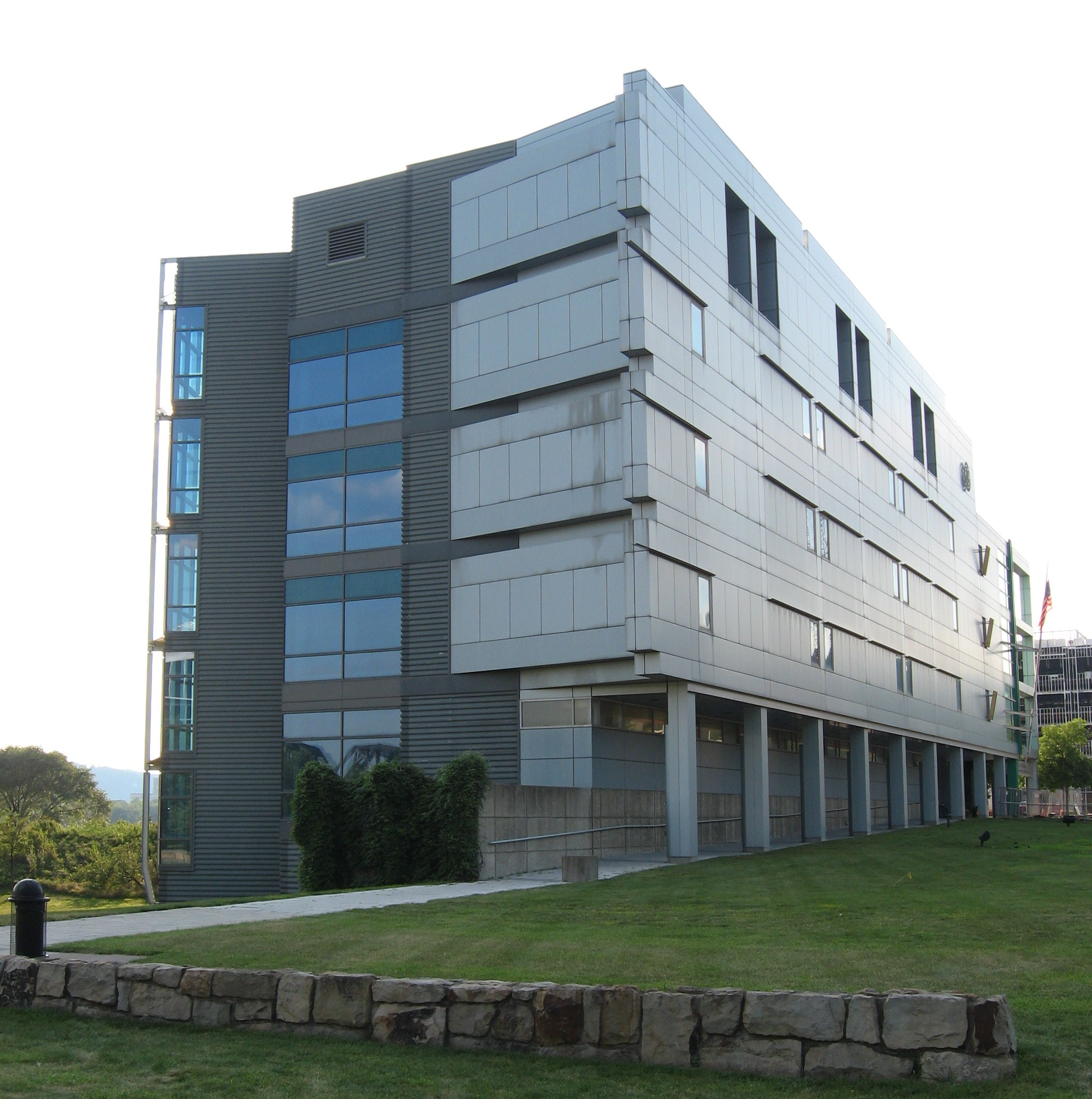 Center for Biotechnology and Bioengineering of the University of Pittsburgh located at 300 Technology Drive, Pittsburgh 40°25′50.7″N 79°57′38.6″W / 40.43075°N 79.960722°W